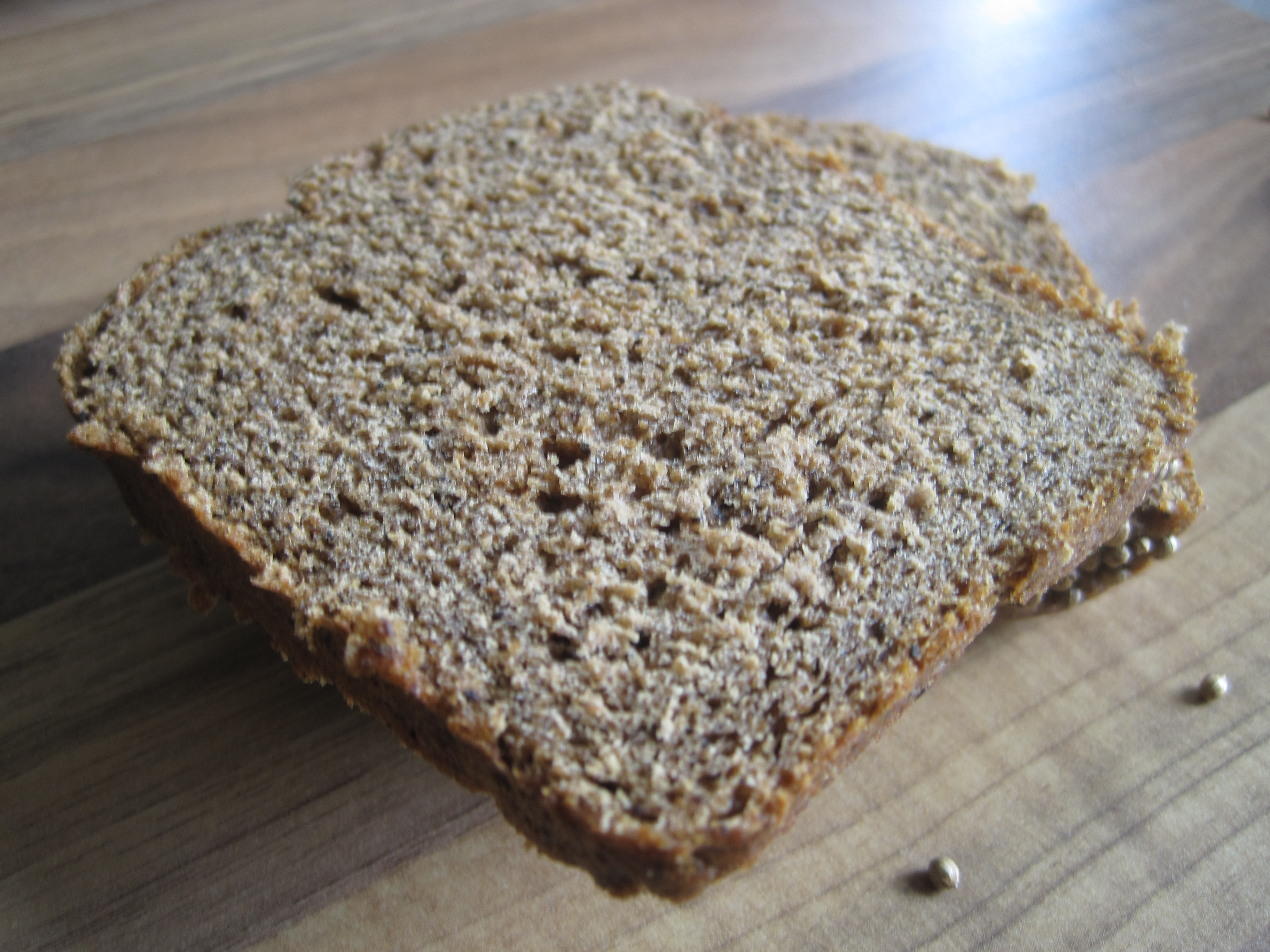 Borordinsky bread